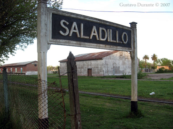 Saladillo Train Station